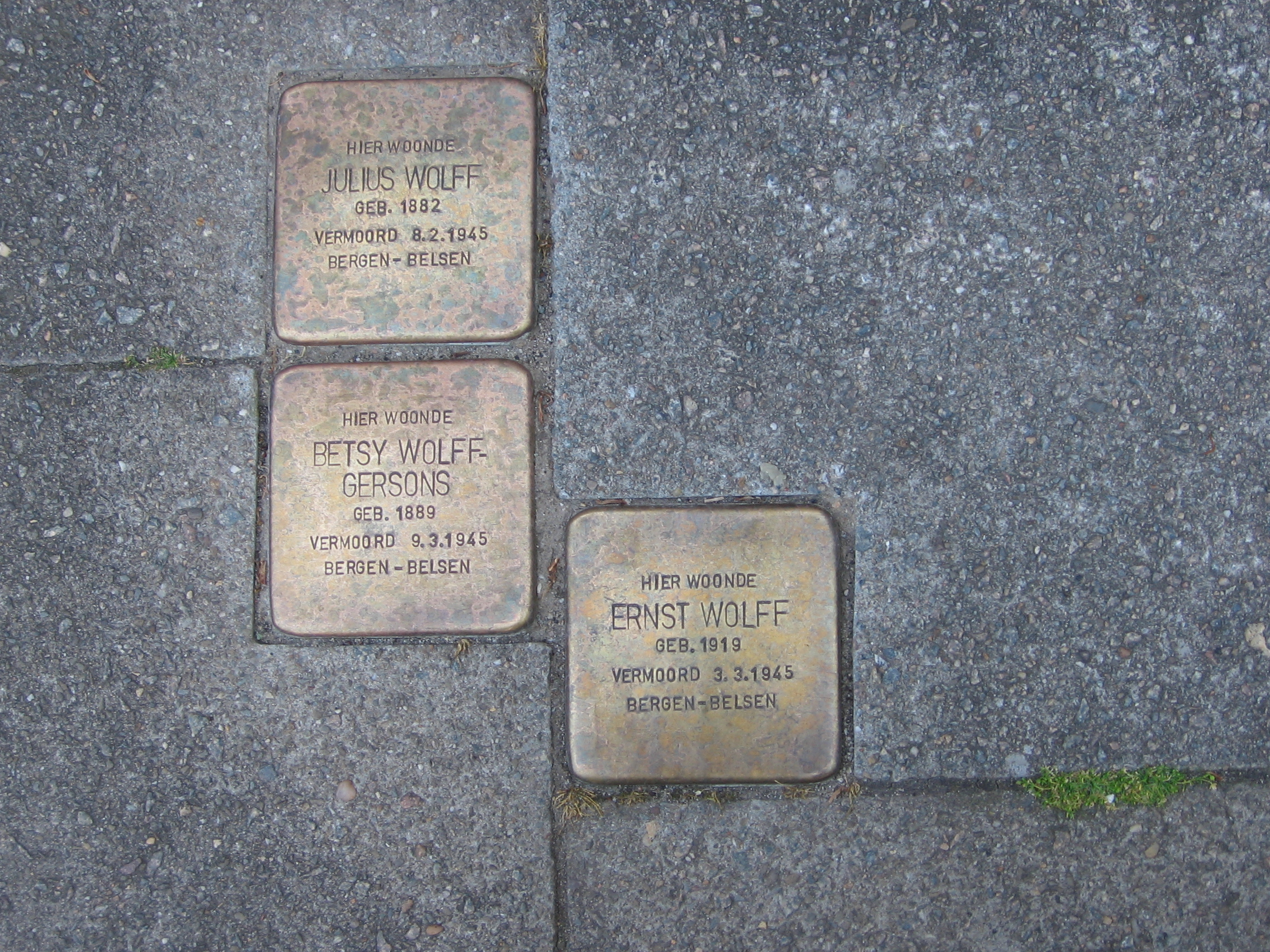 Stolpersteine (brass plates to commemorate Jewish victims of the Holocaust where they lived) for Julius Wolff (mathematician, (April 18) 1882 - February 8, 1945) , his spouse Betsy Wolff-Gersons (1889 - March 9, 1945) and their son Ernst Wolff ((October 9,) 1919 - March 3, 1945). Stadhouderslaan 51, Utrecht